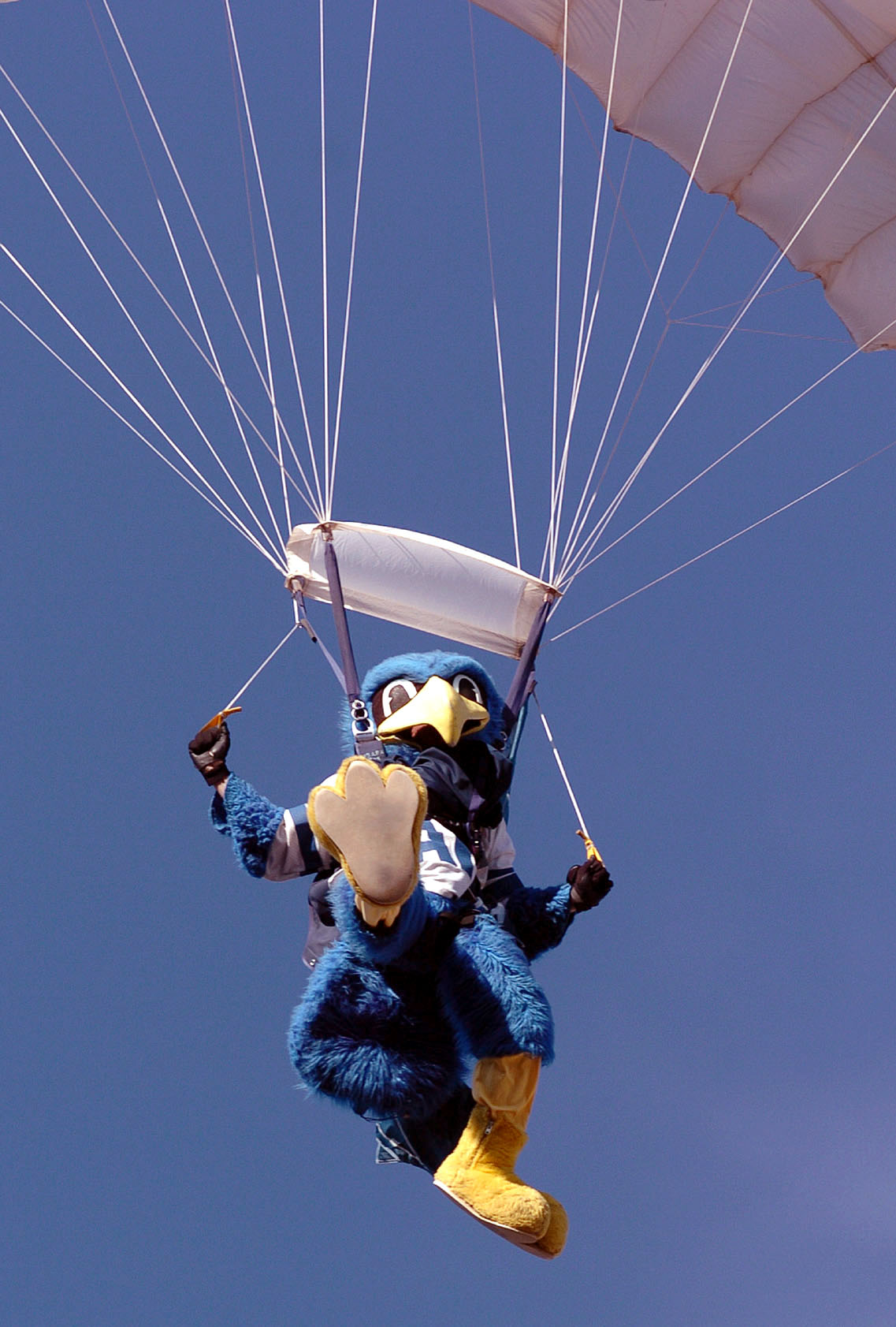 The Air Force Academy's mascot drops in